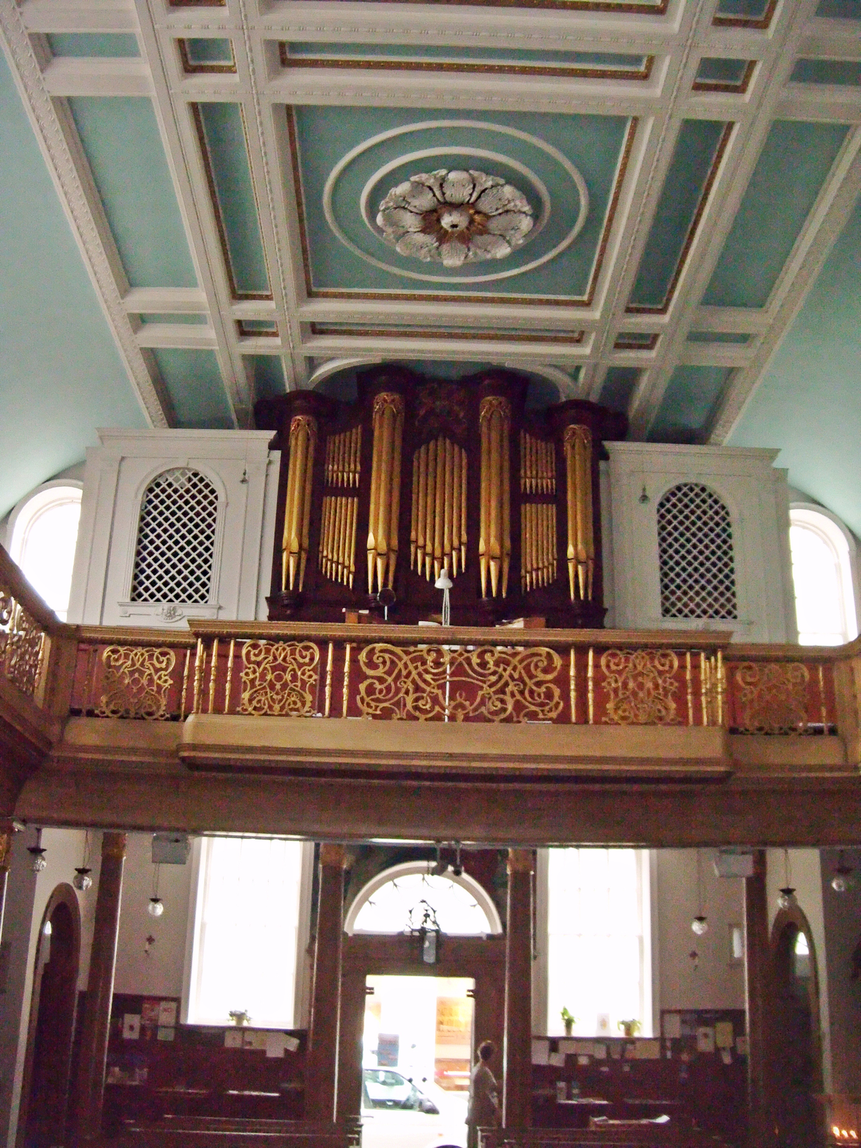 London Warwick Street Church